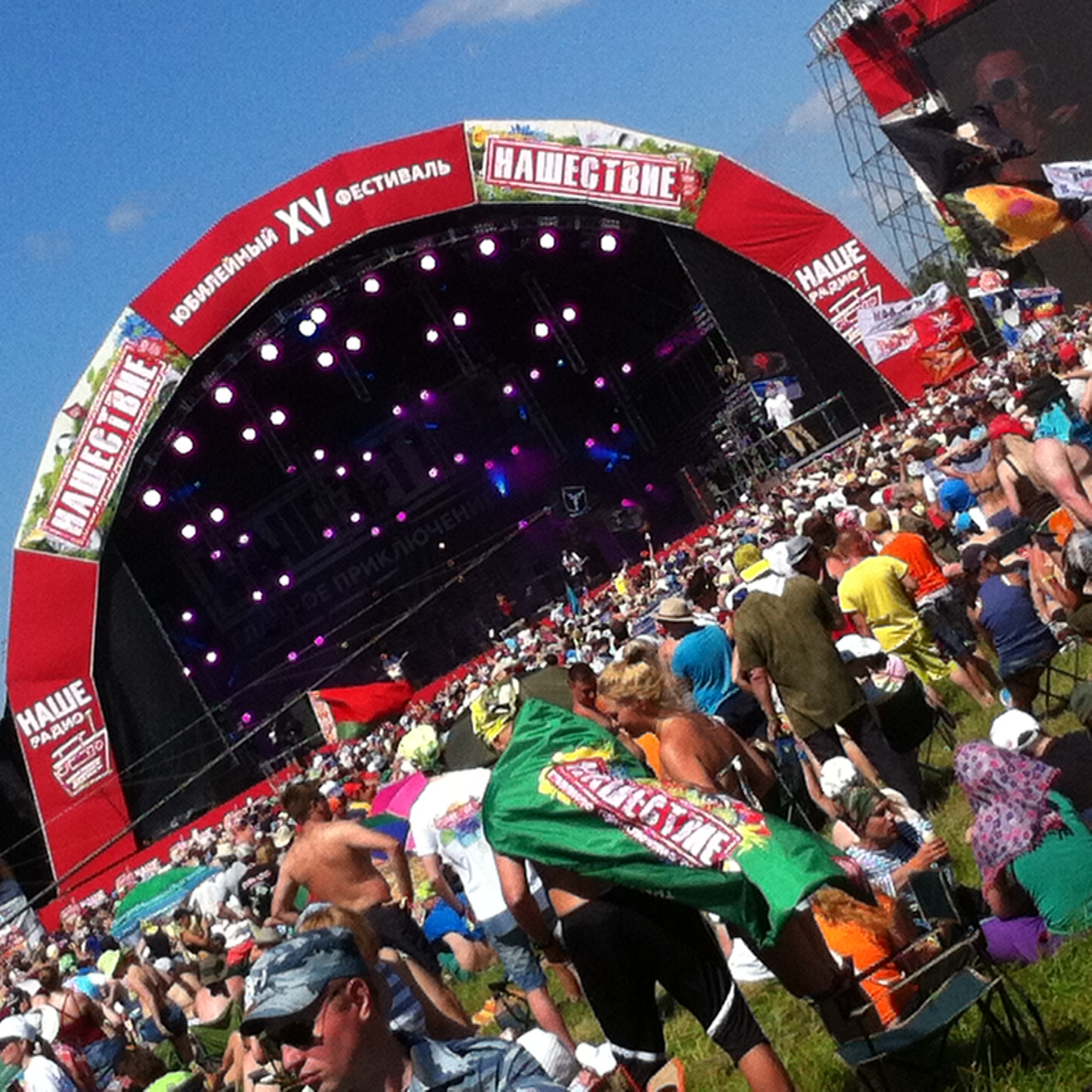 Main Stage Nashestvie rock festival 2015. Tver region. Zavidovo.